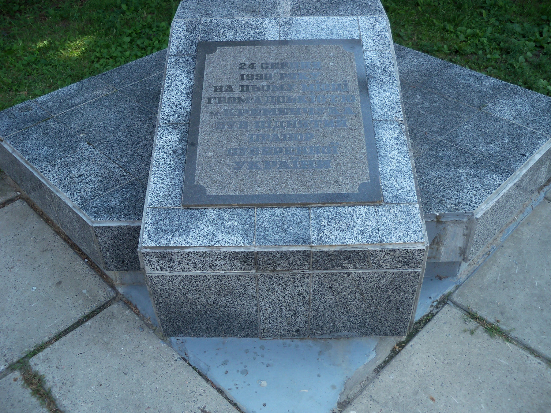 Commemorative sign 10th Anniversary of Independence of Ukraine in Kremenchuk (pedestal)